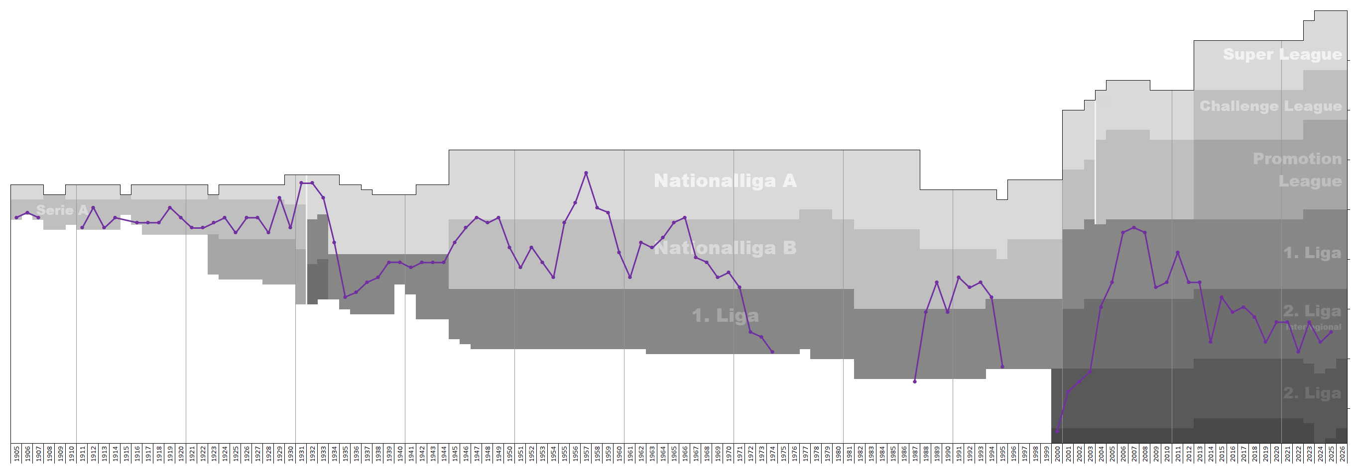 Chart of end-season table positions for FC Urania Geneve Sport in the Swiss football league system. Data source: RSSSF, , al-la.ch